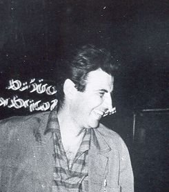 This is a personal snapshot from 1961. The occasion was our meeting on our return to Greece. Personally from the United States and Mr. Theodorakis from France.